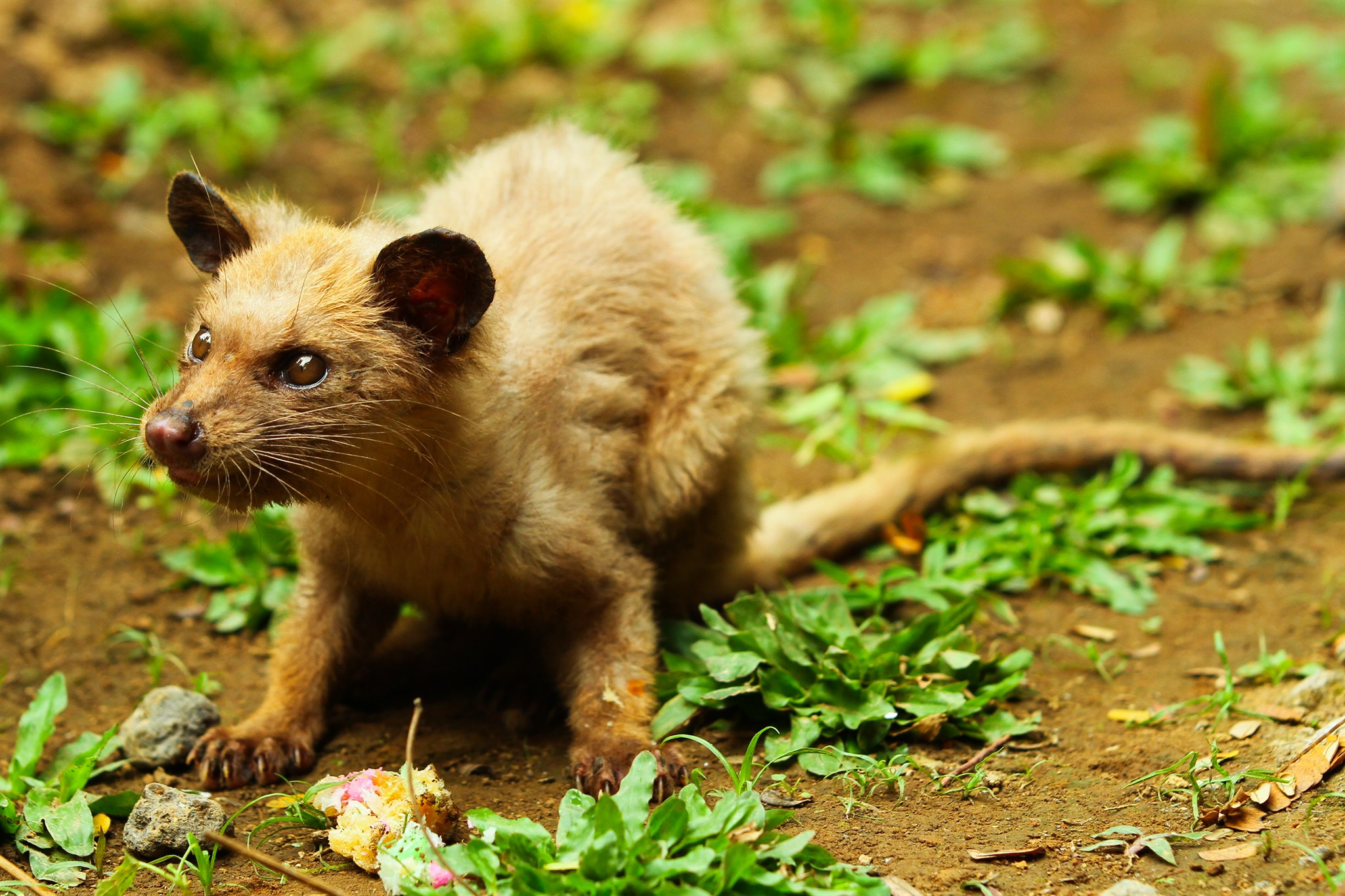 Piti luwak.